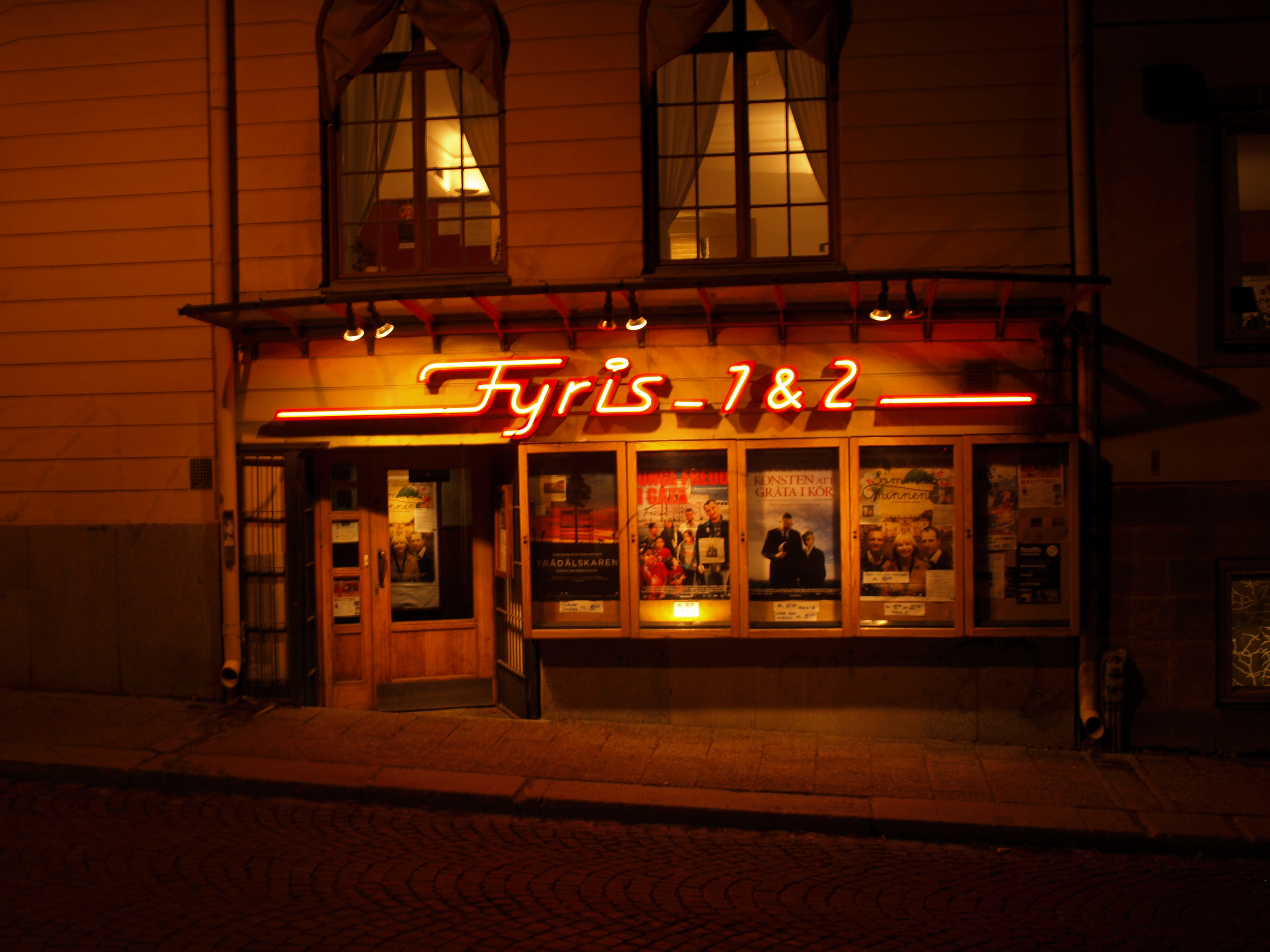 The cinema Fyrisbiografen in Uppsala, Sweden.